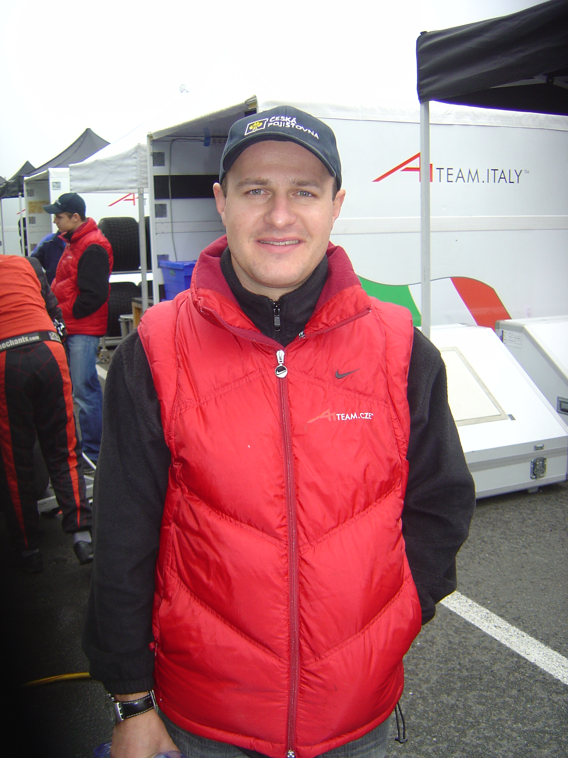 Tomáš Enge: the photo was taken during 2007's A1GP race weekend at Brno